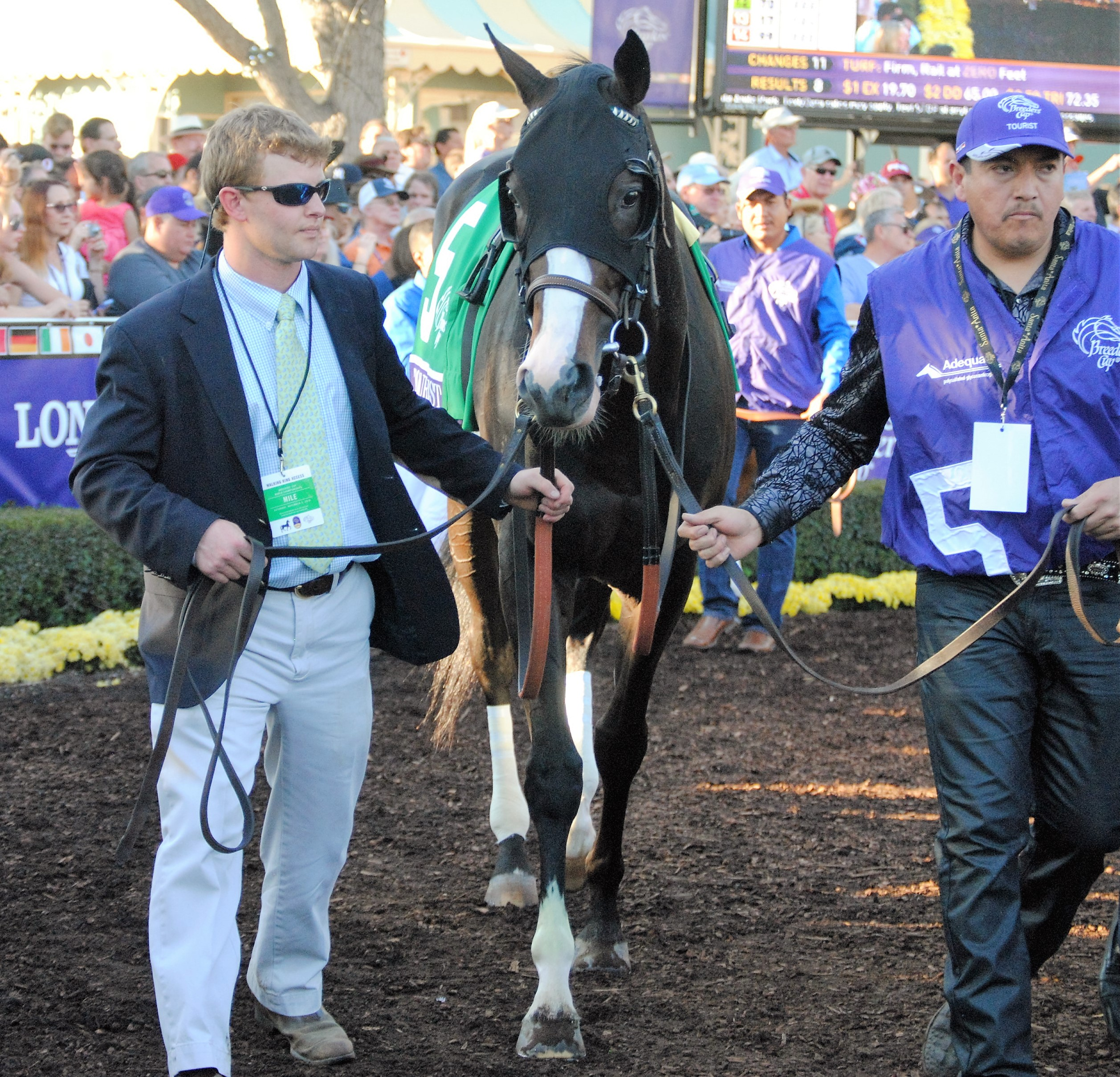 Tourist ready for the 2016 BC Mile